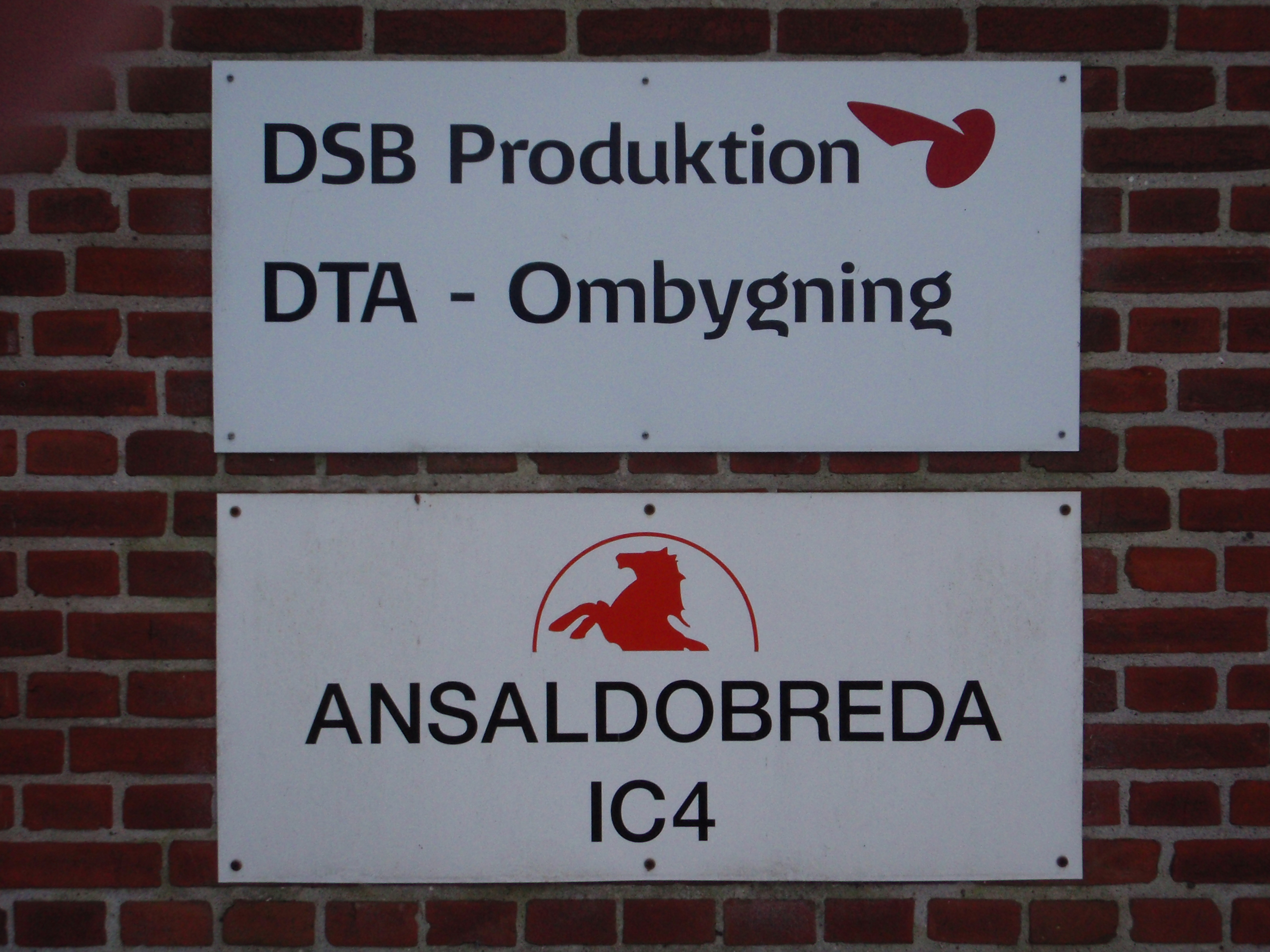 IC4 work shop in Augustenborggade i Aarhus - DSB and AnsaldoBreda signs